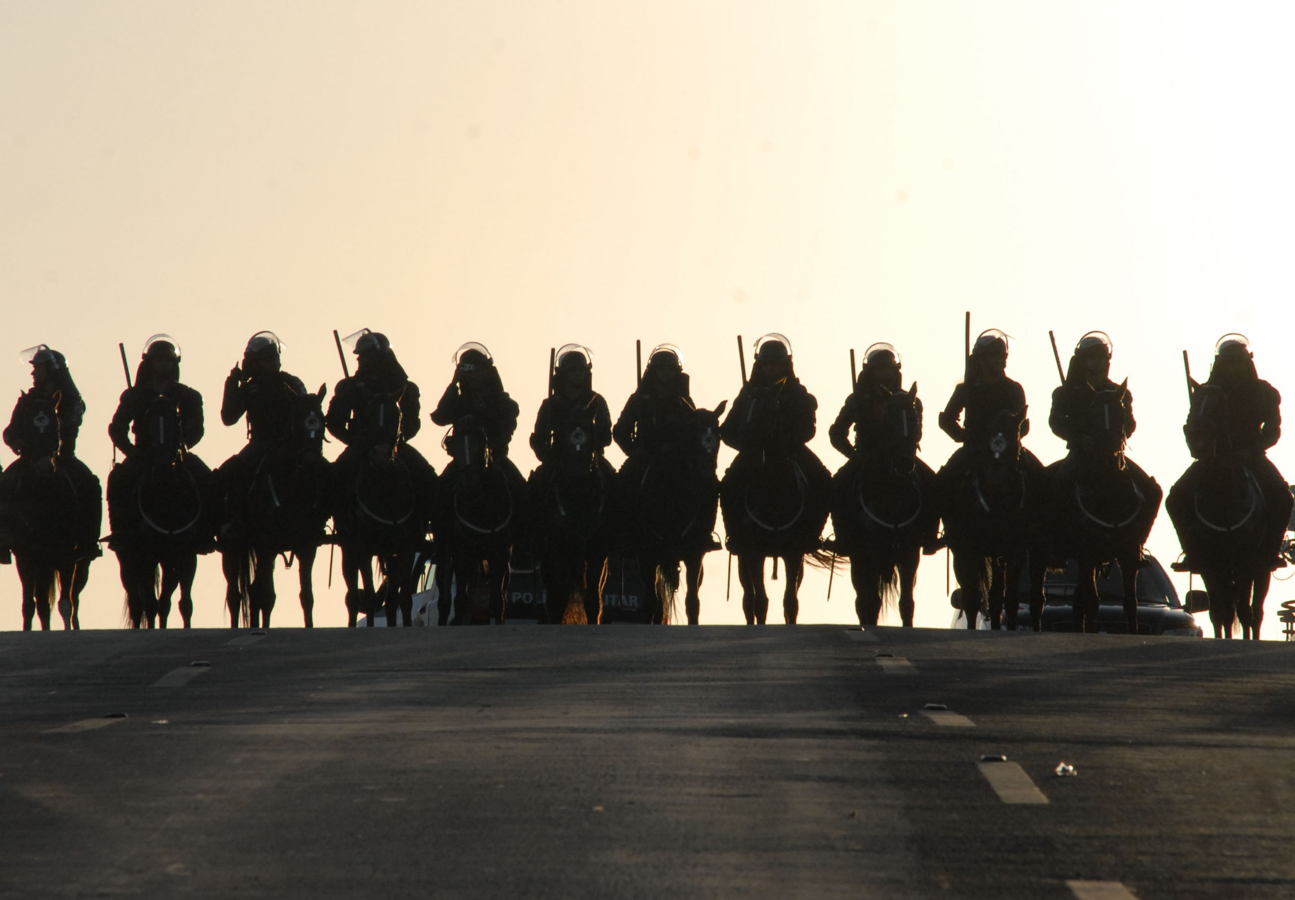 Description: Mounted branch of the Federal District Military Police, during crowd control activities. Source: "Agência Brasil" Date: June 14, 2007. Author: Wilson Dias/ABr. {